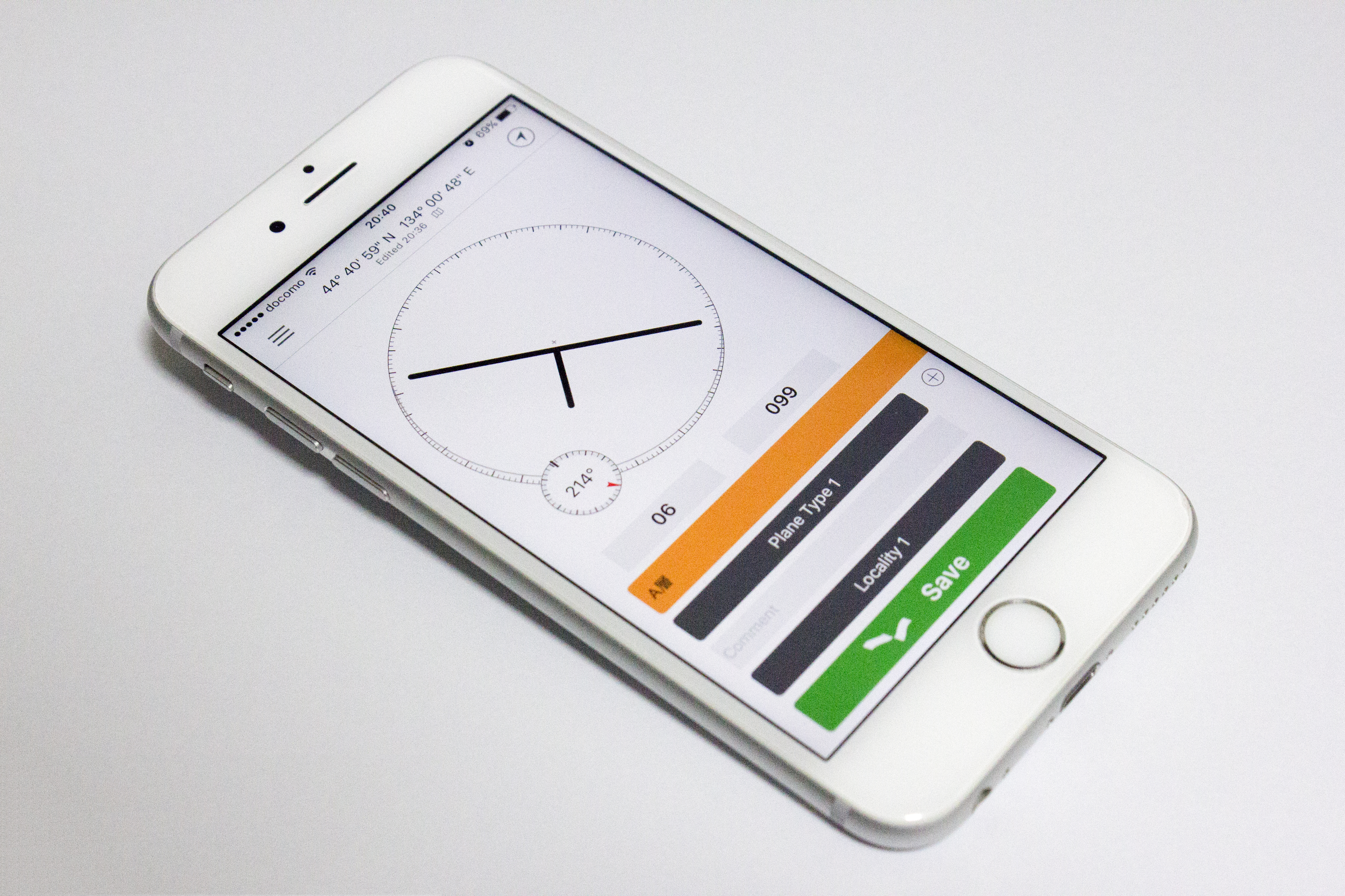 An application of clinometer which works on a smartphone.